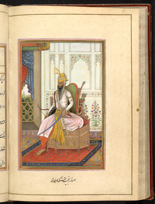 An illustration of Maharaja Ranjit Singh.